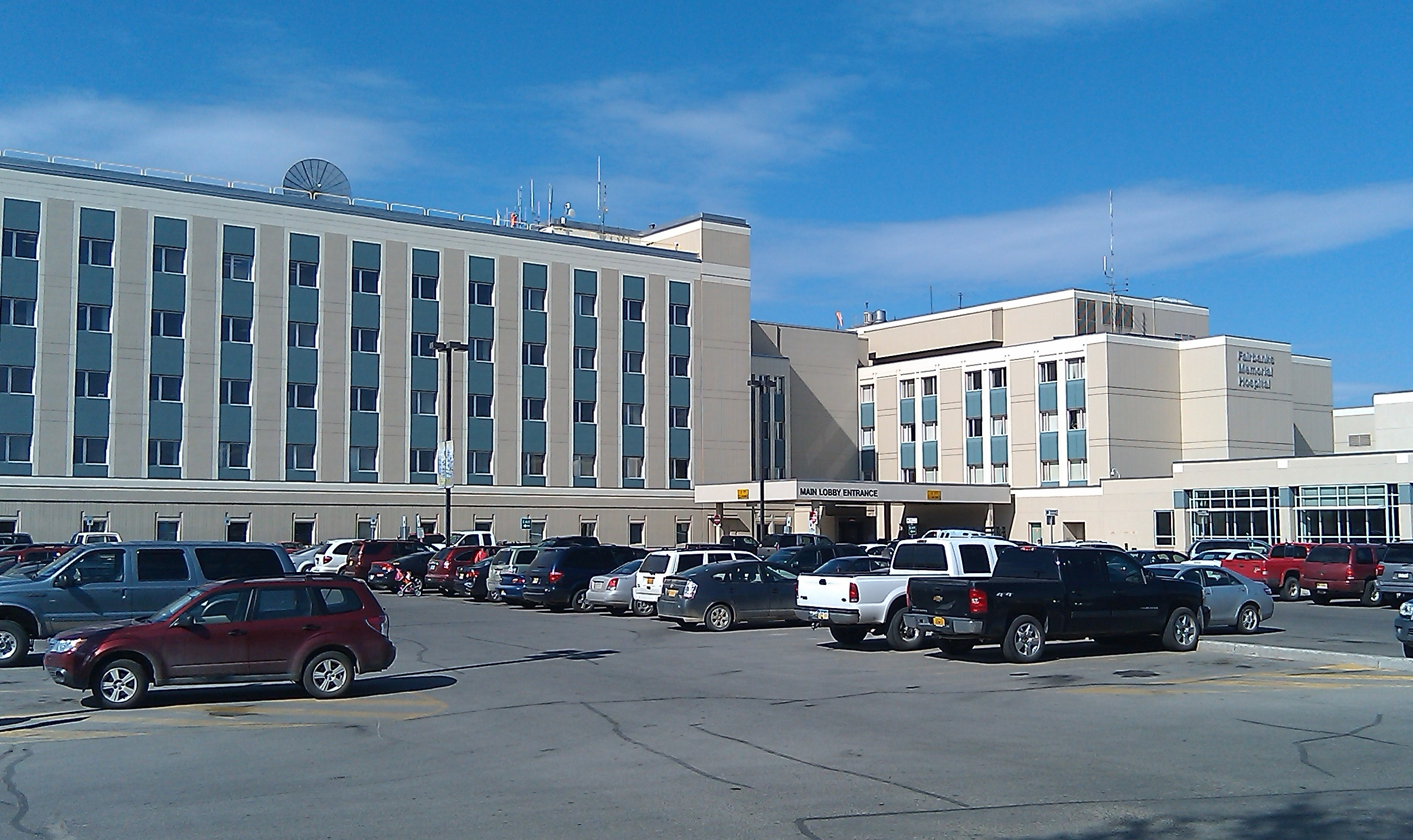 Fairbanks Memorial Hospital in Fairbanks, Alaska. The community's only hospital (apart from the military Bassett Army Hospital on Fort Wainwright)